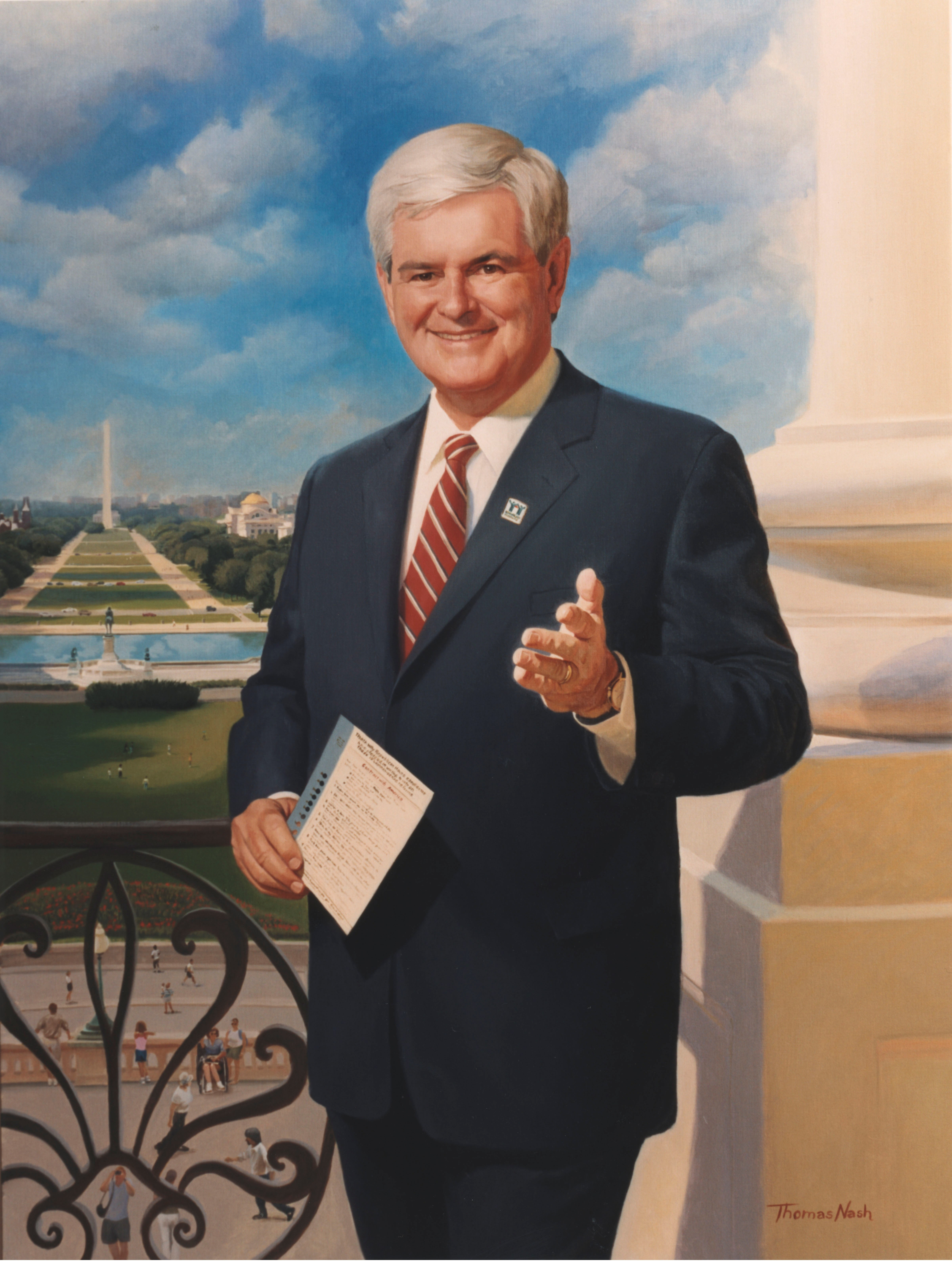 Former U.S. Representative and Speaker of the House Newt Gingrich (R-GA). Oil on canvas.